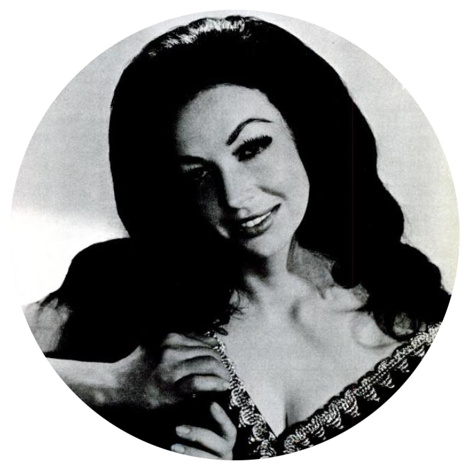 Trade ad for Lois Johnson's single "Removing The Shadow". To better adapt it to his respective Wikipedia article, the ad was cropped and cleaned in a graphics editing program. The original can be viewed at the source below.